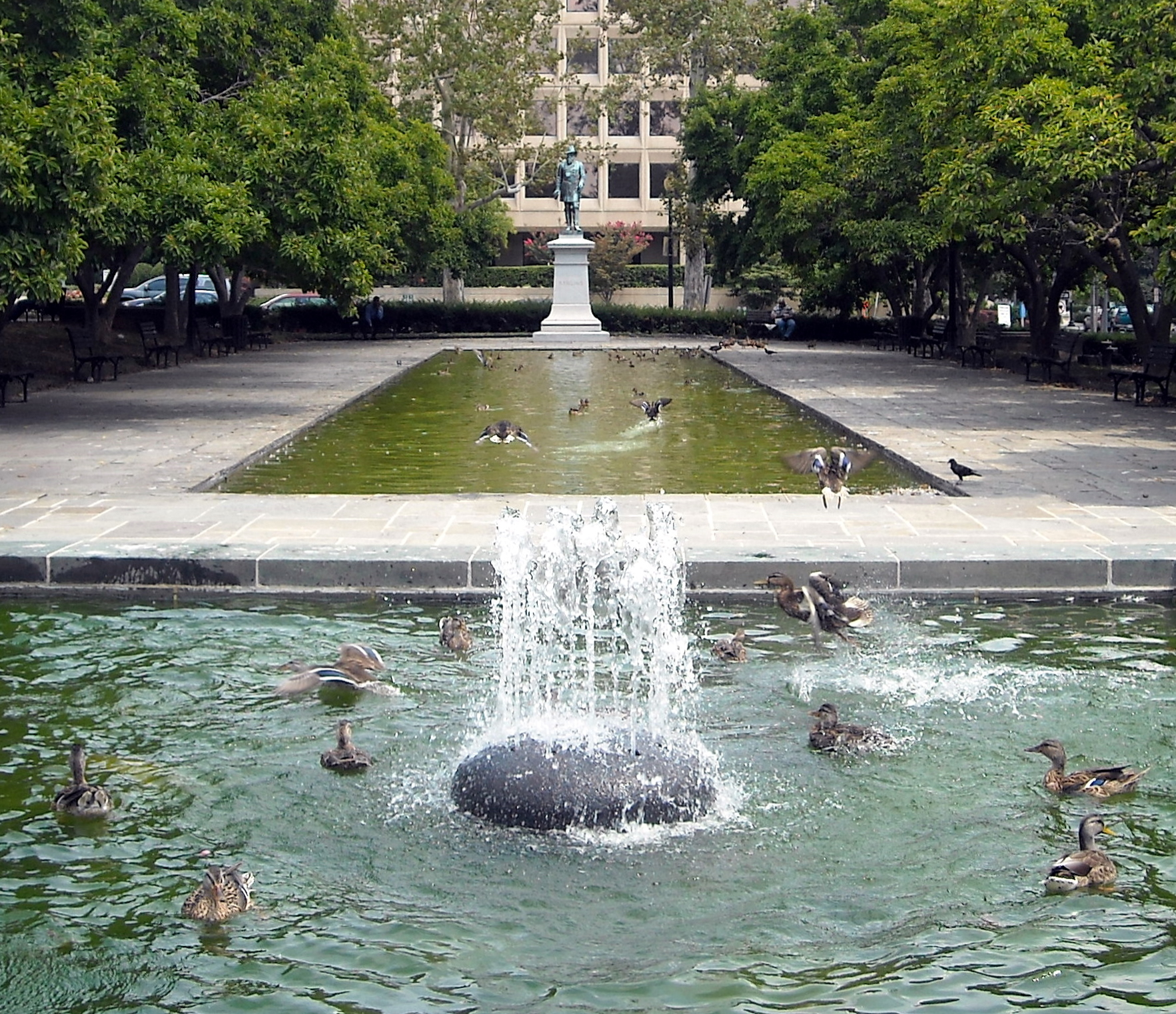 Rawlins Park located at 18th and E Streets, NW in the Foggy Bottom neighborhood of Washington, D.C. The park was founded in 1873 and named in honor of General John Aaron Rawlins. His statue was sculpted by Joseph A. Bailey and dedicated in 1874. It was removed to Market Square in 1886, but when Center Market was demolished in 1931 the statue was returned to the park.